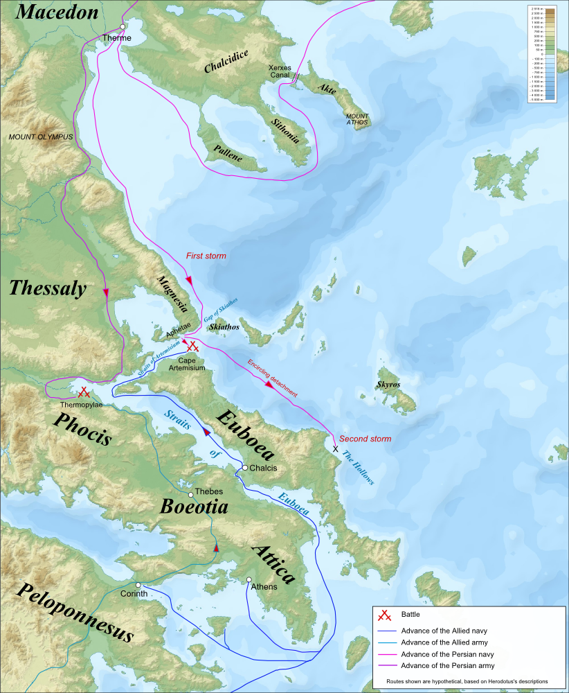 Campaign map for the Battles of Thermopylae & Artemisium (480 BC), based on the description of Herodotus. Imposed on a Bathymetic/Topographical map of the Aegean Sea. UTM projection; WGS84 datum ; shaded relief *Scales: **Topography: 1:608,000 (precision 152 m) **Bathymetry: 1:7,512,000 (precision 1,878 m)